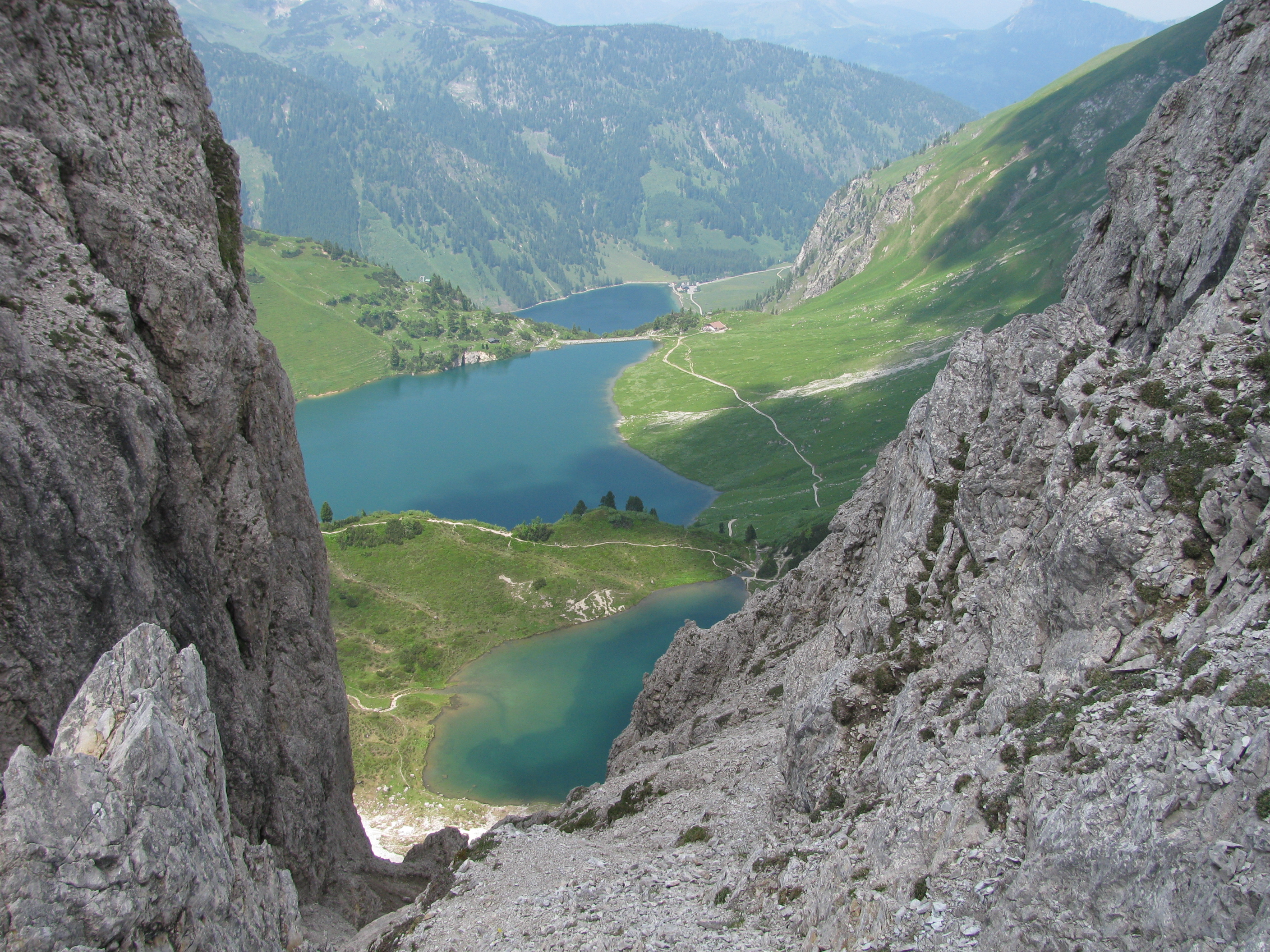 Austria - Tyrol: Lache - Traualpsee - Vilsalpsee